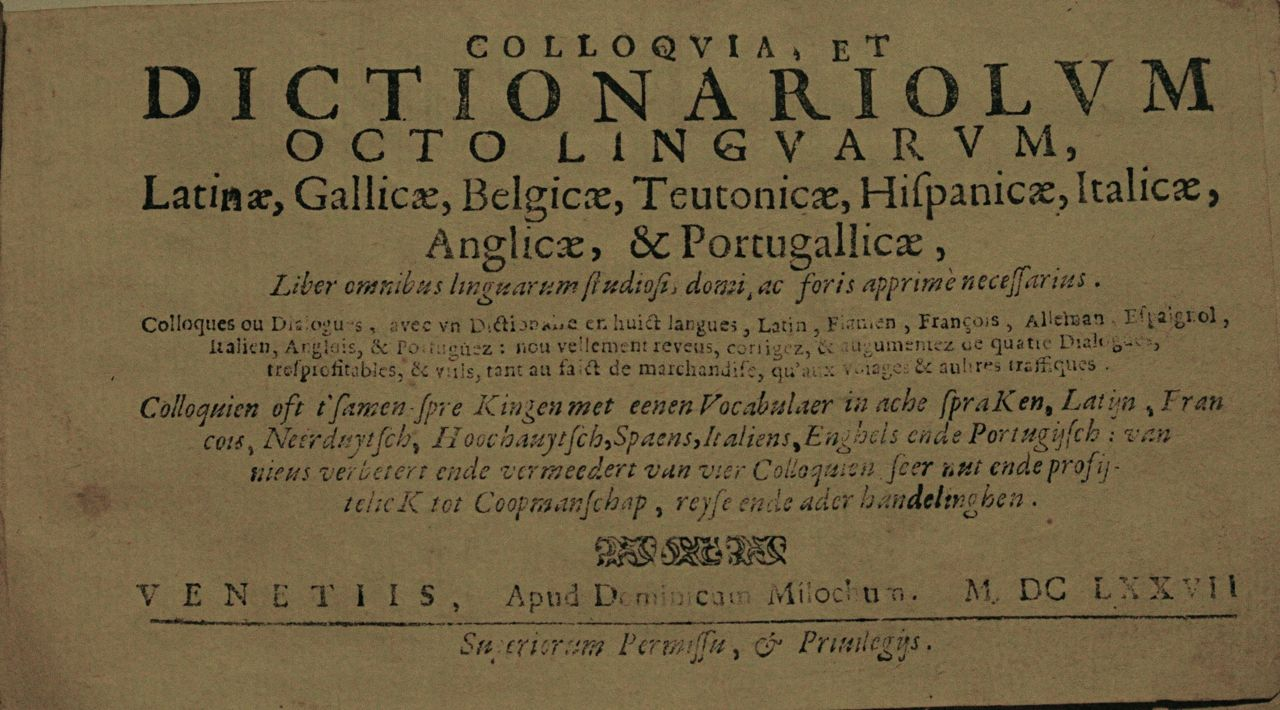 Own picture of the book Colloquia et Dictionariolum octo linguarum. 1677